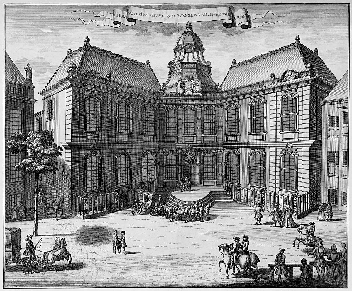 The house of the Count Van Wassenaer-Obdam, on the Kneuterdijk in The Hague. Nowadays it's called 'Kneuterdijk Palace' and is part of the buildings of the Council of State of the Netherlands.